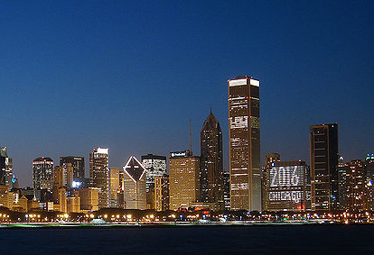 Cropped version of File:Chicago 2016.jpg